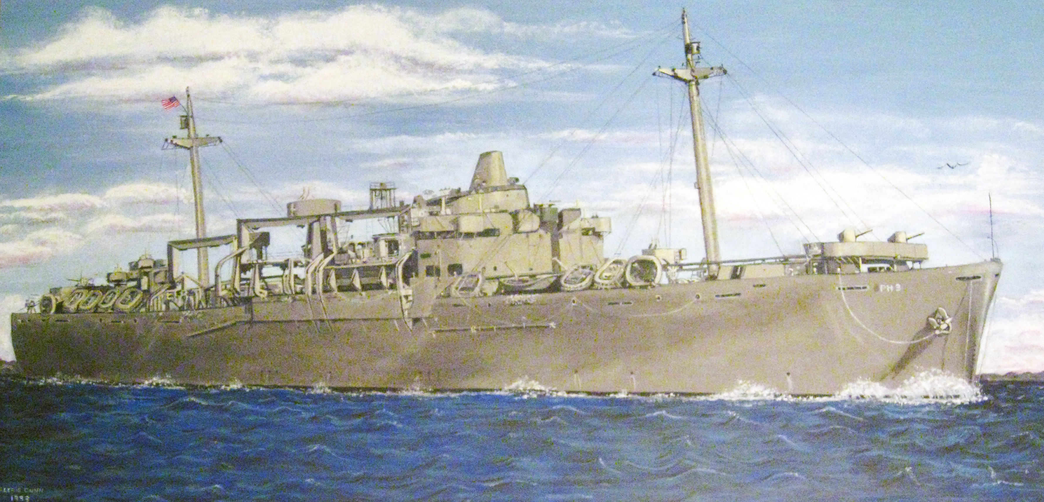 Painting of the U.S. Navy evacuation transport USS Rixey (APH-3) at sea during World War II.